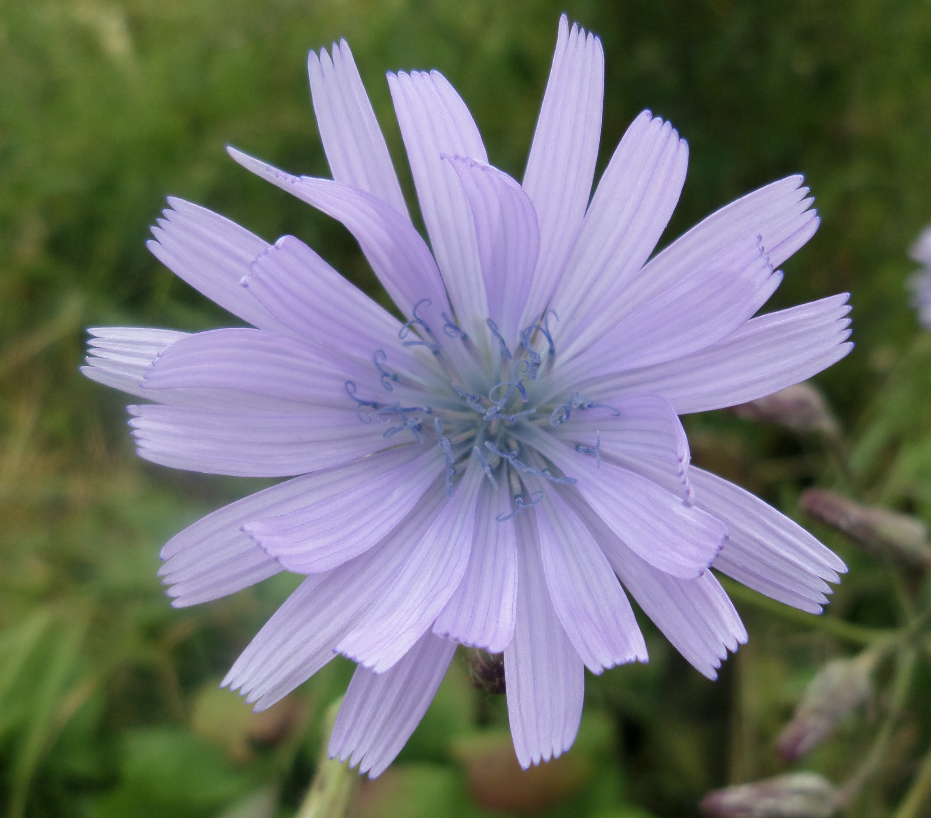 Cicerbita macrophylla or Blue Sowthistle, Fenwick Water, Waterside, East Ayrshire, Scotland.